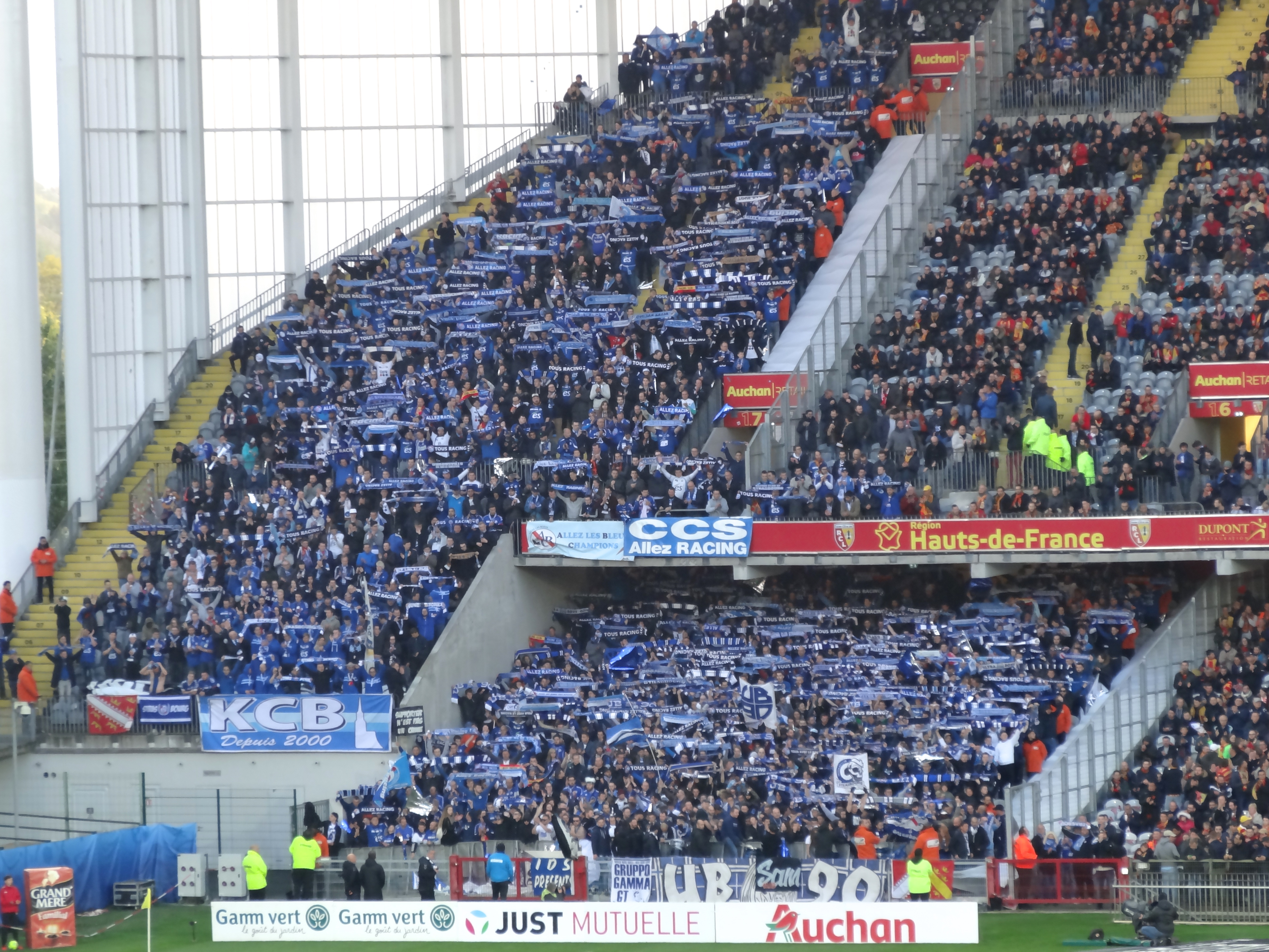 Strasbourg supporters away in Lens